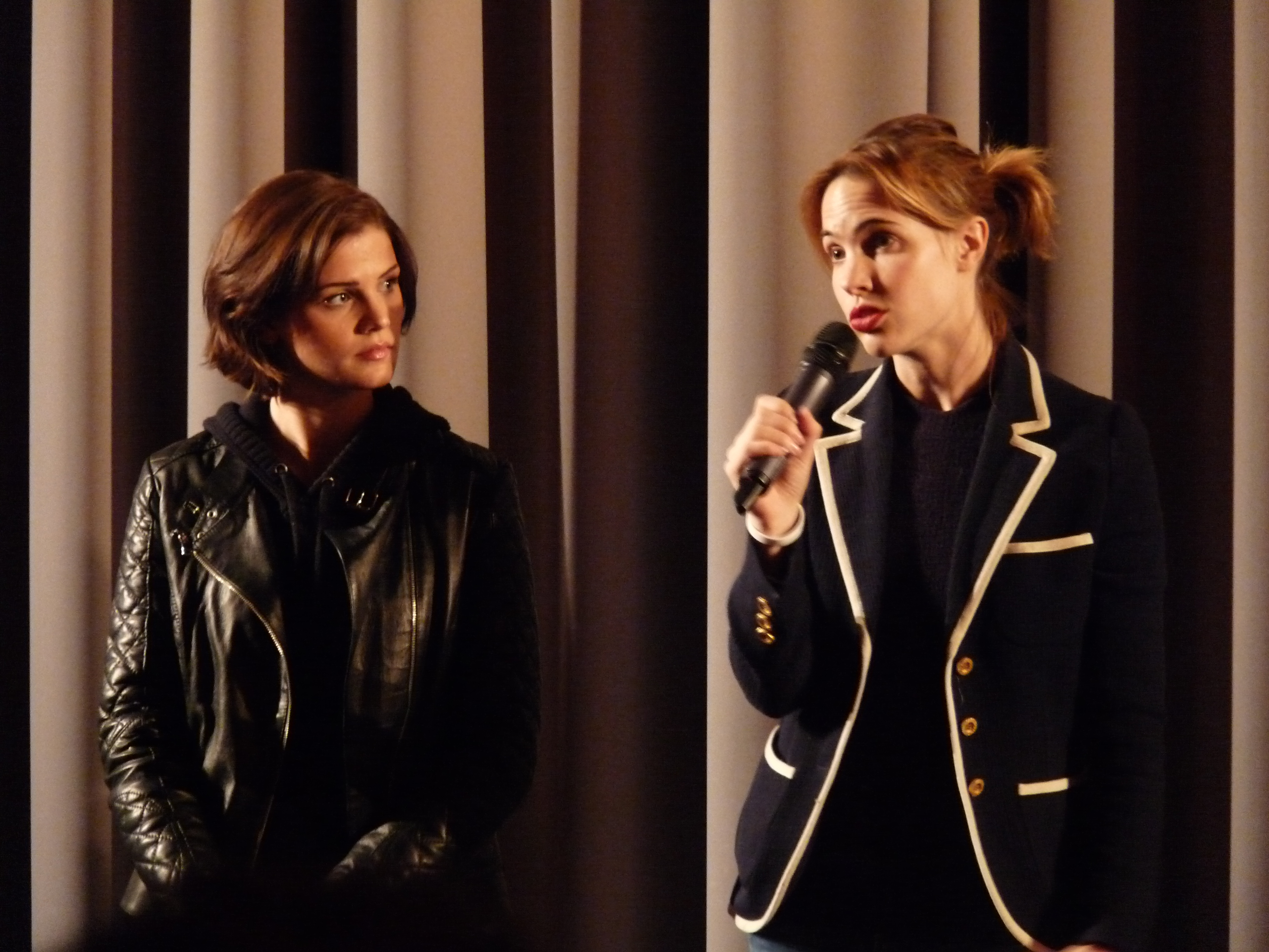 Lisa Tomaschewsky (left) and Sophie van der Stap at the premiere of the movie Heute bin ich blond in Münster, Germany